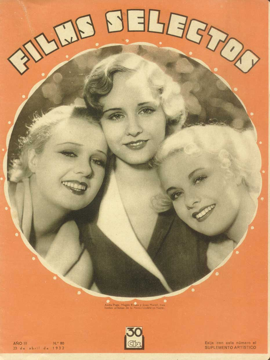 Anita Page, Madge Evans, Joan Marsh on the Argentinean Magazine cover. (Printed in USA)